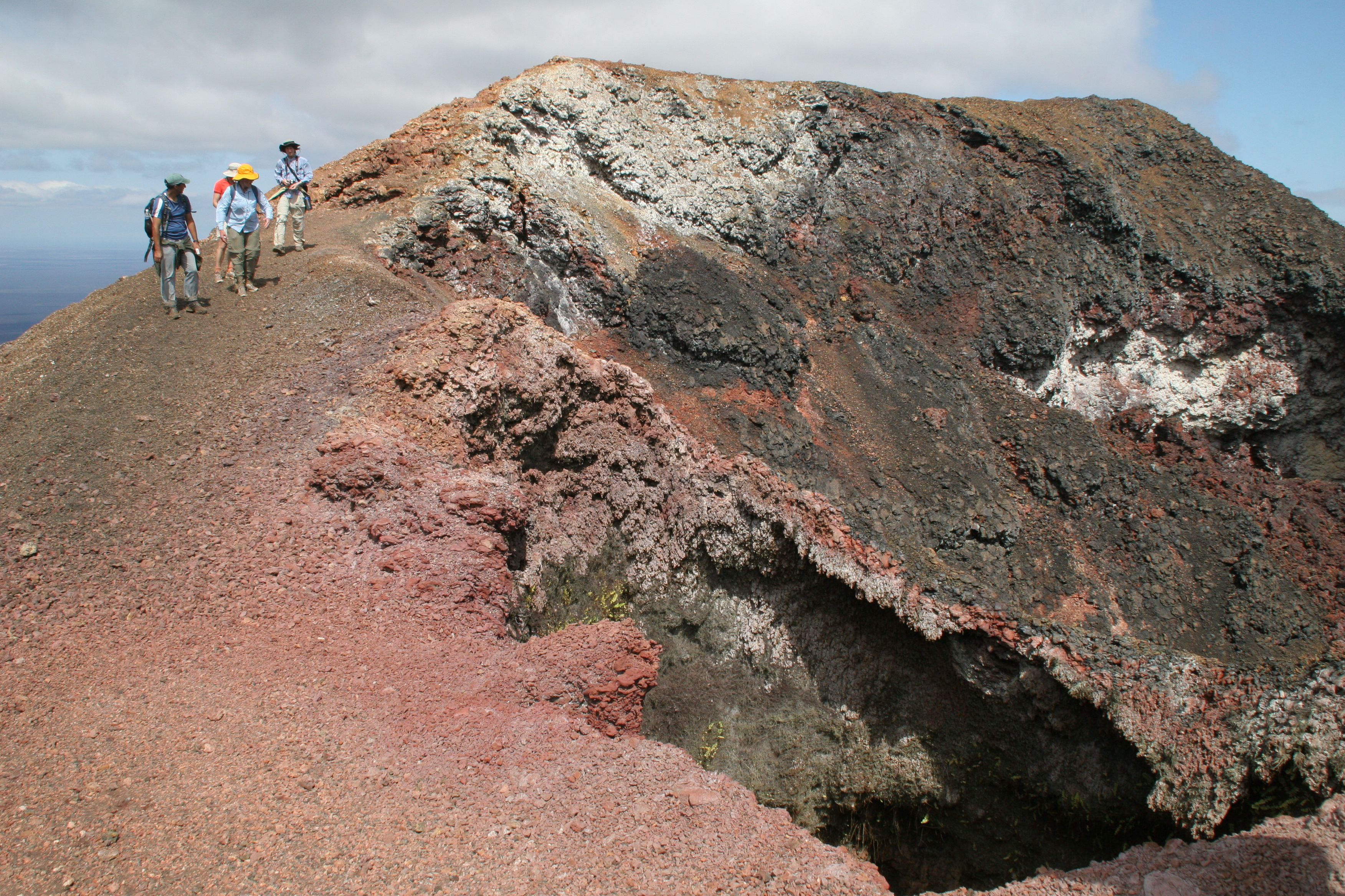 The slopes of Sierra Negra Volcano are first misty, then crystal clear as we hike across into lava floes from eruptions in 1970s, 80s and most recently, 2005. This part is on the side of the Sierra Negra Volcano and is part of the Volcan Chino.